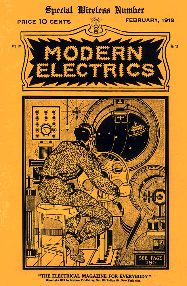 Modern Electrics, February 1912. Volume 4 Number 11. The cover story is "Ralph 124C 41 +", written by Hugo Gernsback. This was serialized in 12 installments starting in April 1911. Modern Electrics was the predecessor to Electrical Experimenter magazine. A caption for this image: "Ralph in his space flyer overhauls the Martian, Llysanorh. He will trap him with his Ultra-Generator" Steckler, Larry (2007) Hugo Gernsback, A Man Well Ahead of His Time, pg 245, ISBN:1-4196-5858-1